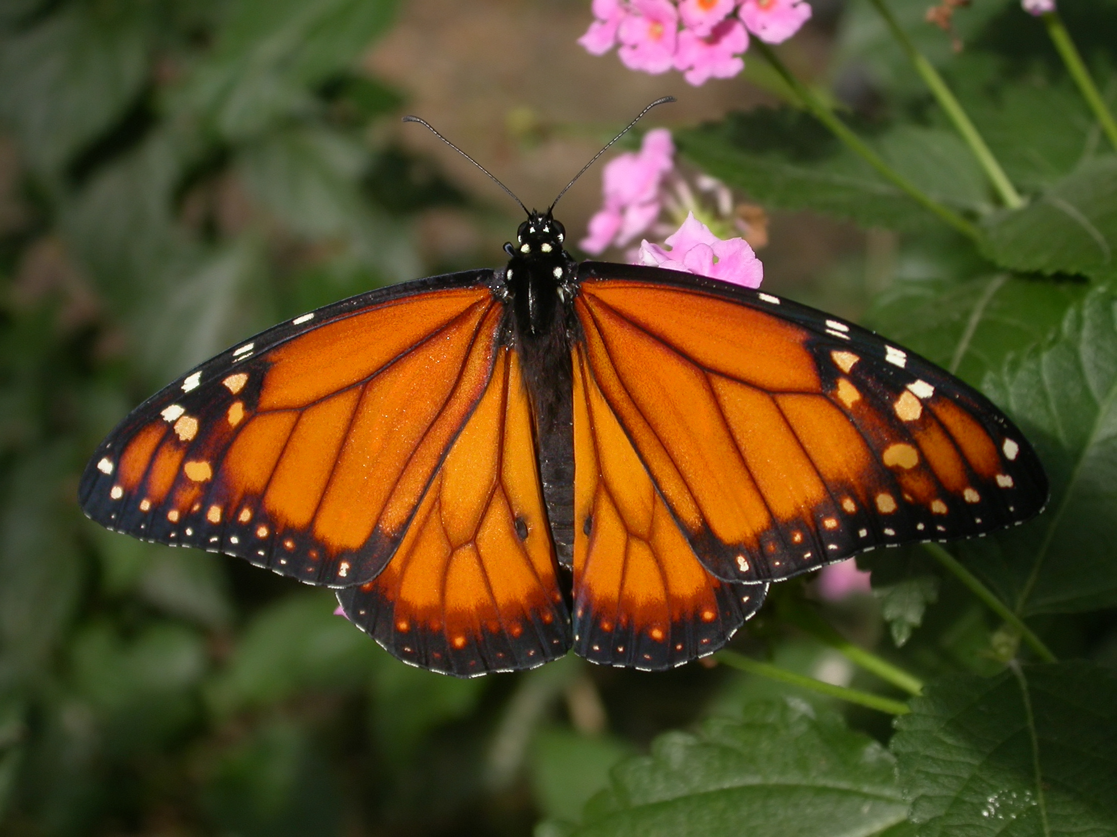 Danaus erippus (= Danaus plexippus erippus, Southern Monarch), male, at La Plata (Buenos Aires province, Argentina). Home reared from local stock (eggs laid by wild butterflies).